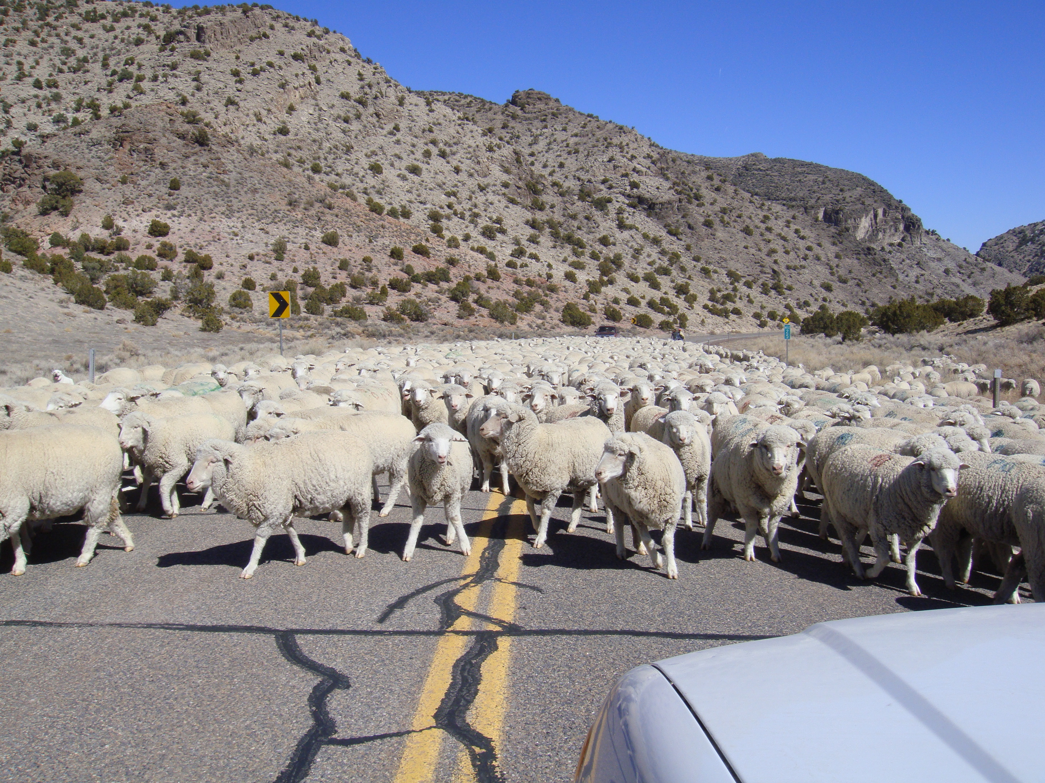 View of Kings Canyon, Utah with sheep being herded along US Highway 6/US Highway 50.(from the Confusion Range, western Utah)